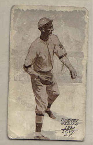 1920 Zeenut Baseball Card / San Fransico Seals / Pacific Coast League